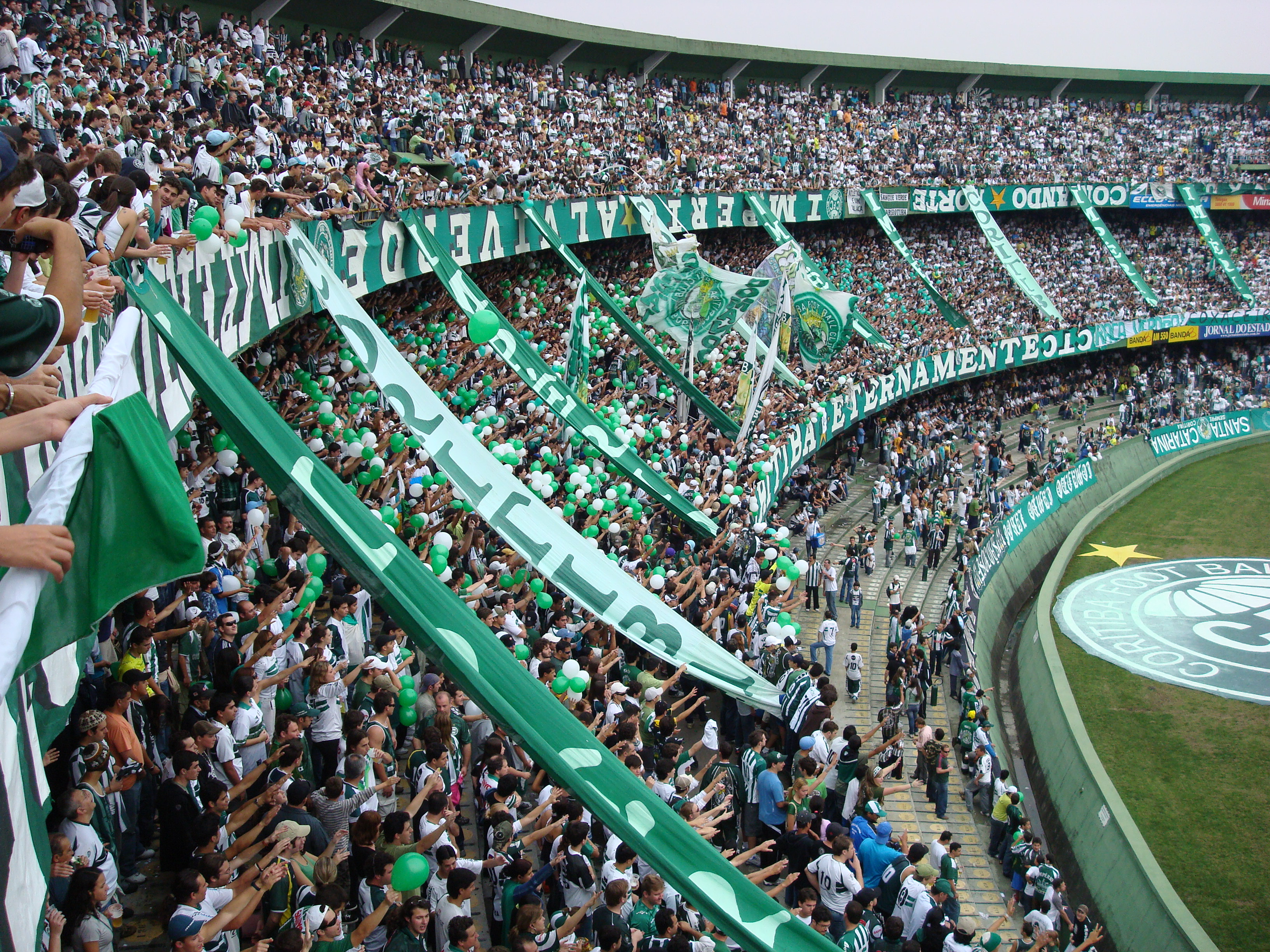 Formal "torcida" Império Alviverde one hour before the match Coritiba vs. Ceará, valid for the Campeonato Brasileiro. Estádio Couto Pereira, Curitiba, Paraná, Brazil.